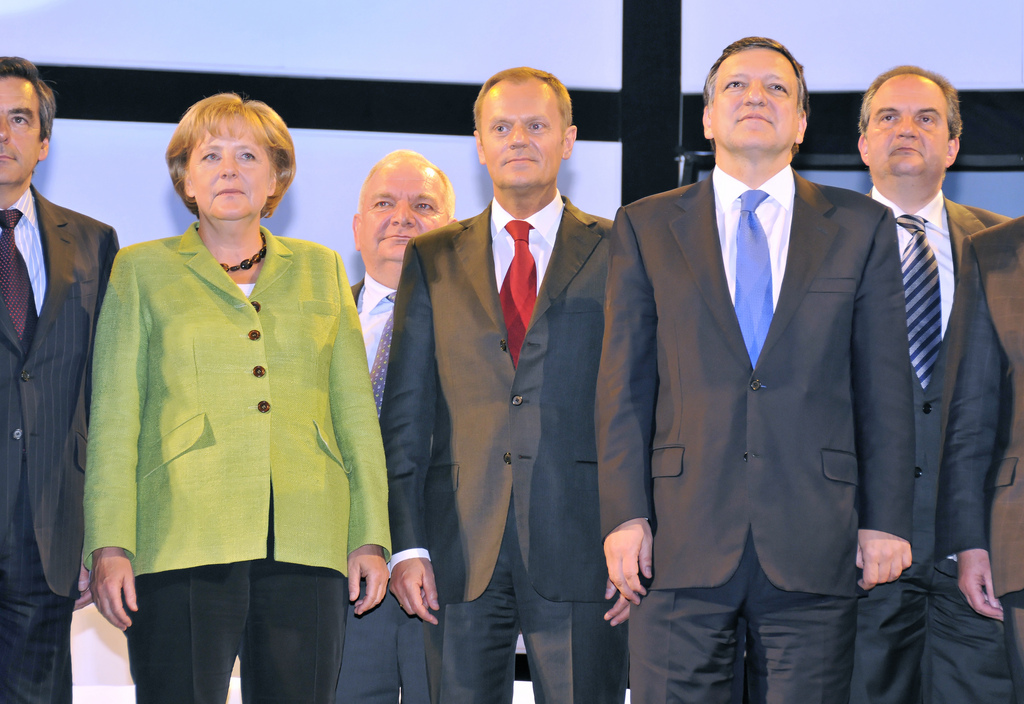 Donald Tusk with Angela Merkel and Jose Manuel Barroso during EPP Congress in Warsaw